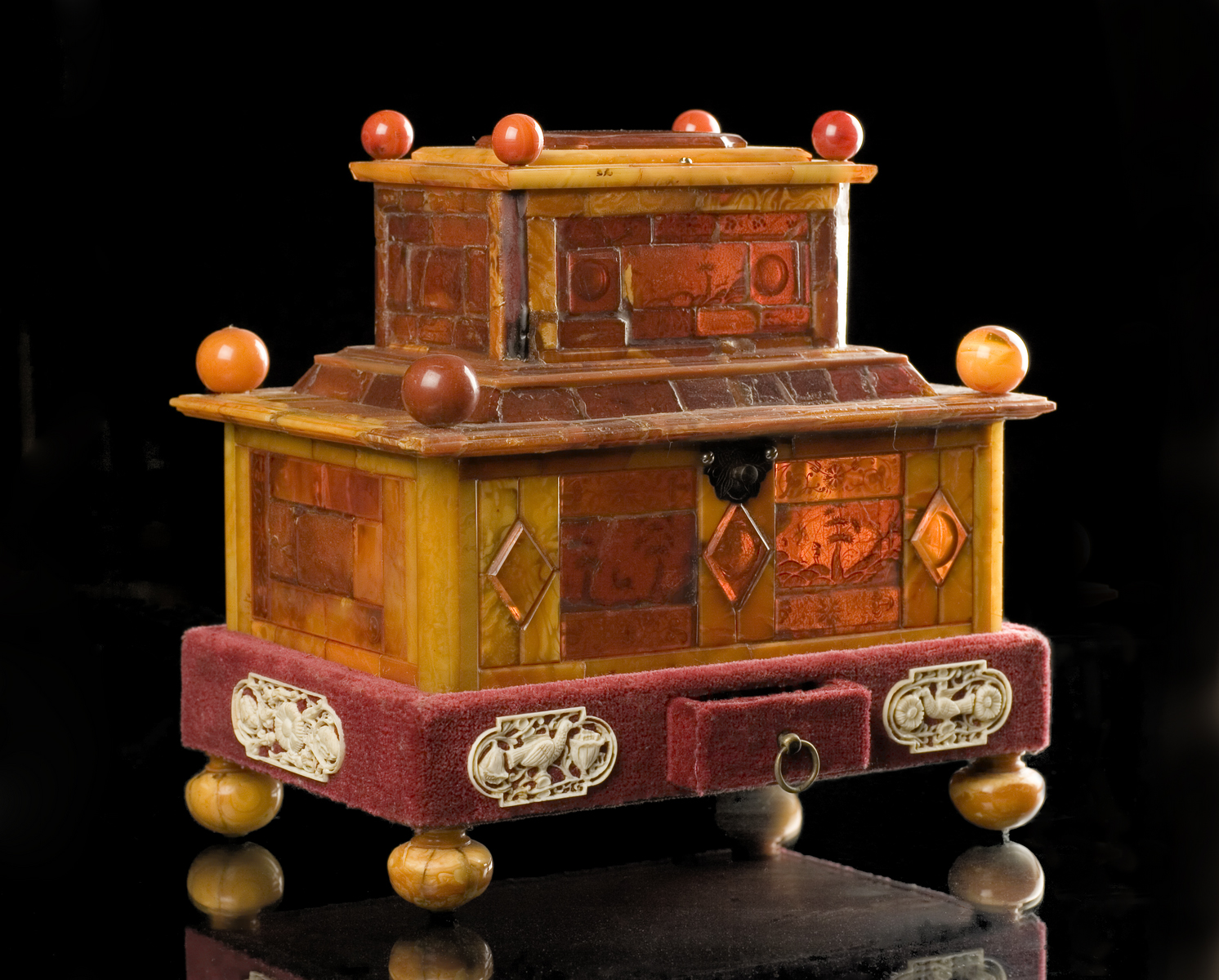 Amber double-tier casket. 17th century. Germany. The restoration: 1990. Zhuravlev A. A., Vanin A. P., Leningrad. Kaliningrad Amber Museum